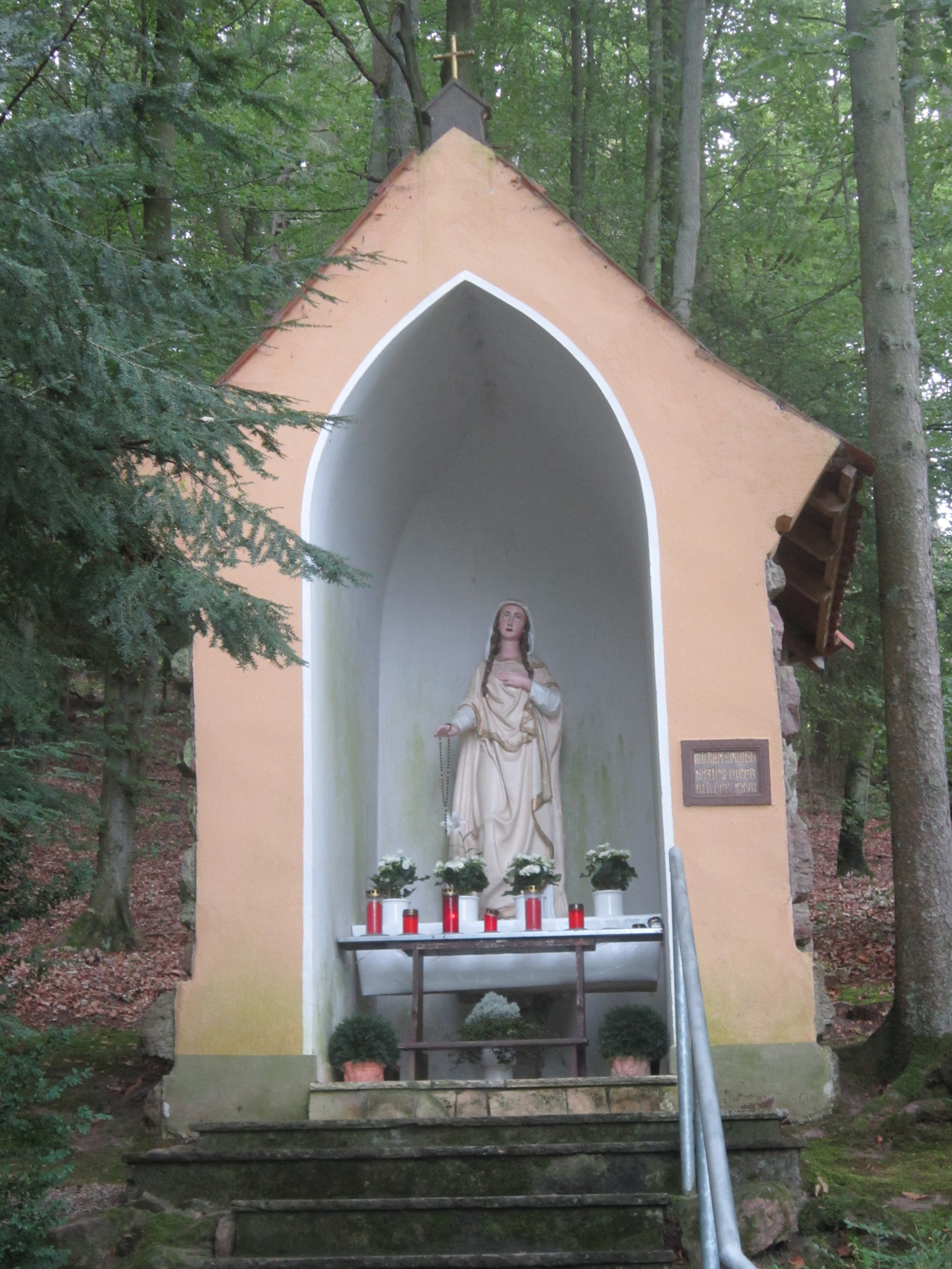 Holy Mary Statue in the German spa town Bad Bocklet in Lower Franconia (Bavaria) by Franconian sculptor Michael Arnold.